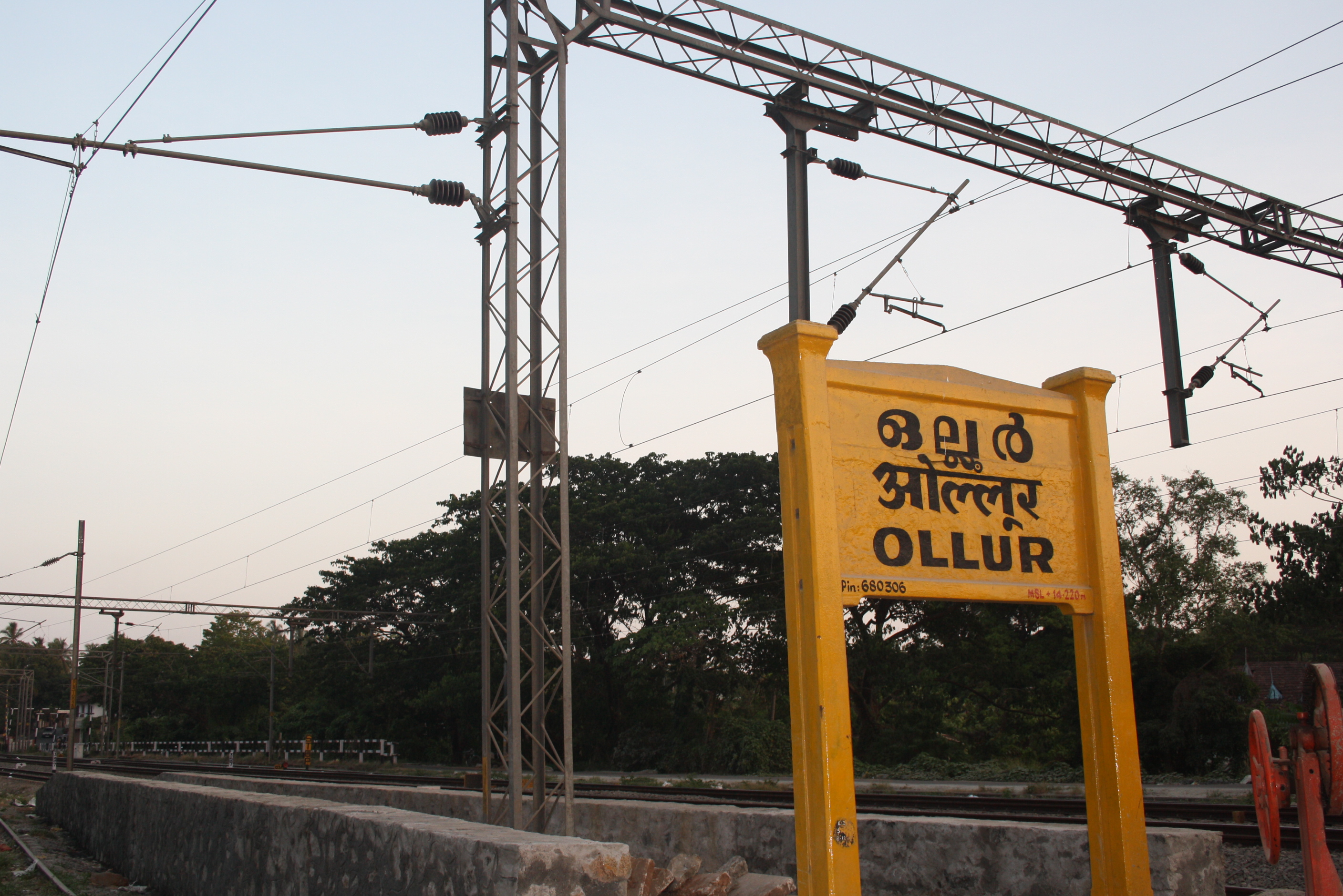 First platform of Ollur Railway Station